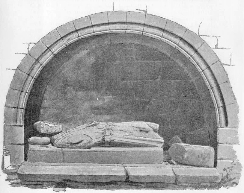 Illustration of an effigy at Dundrennan Abbey, thought to be that of Alan, Lord of Galloway.